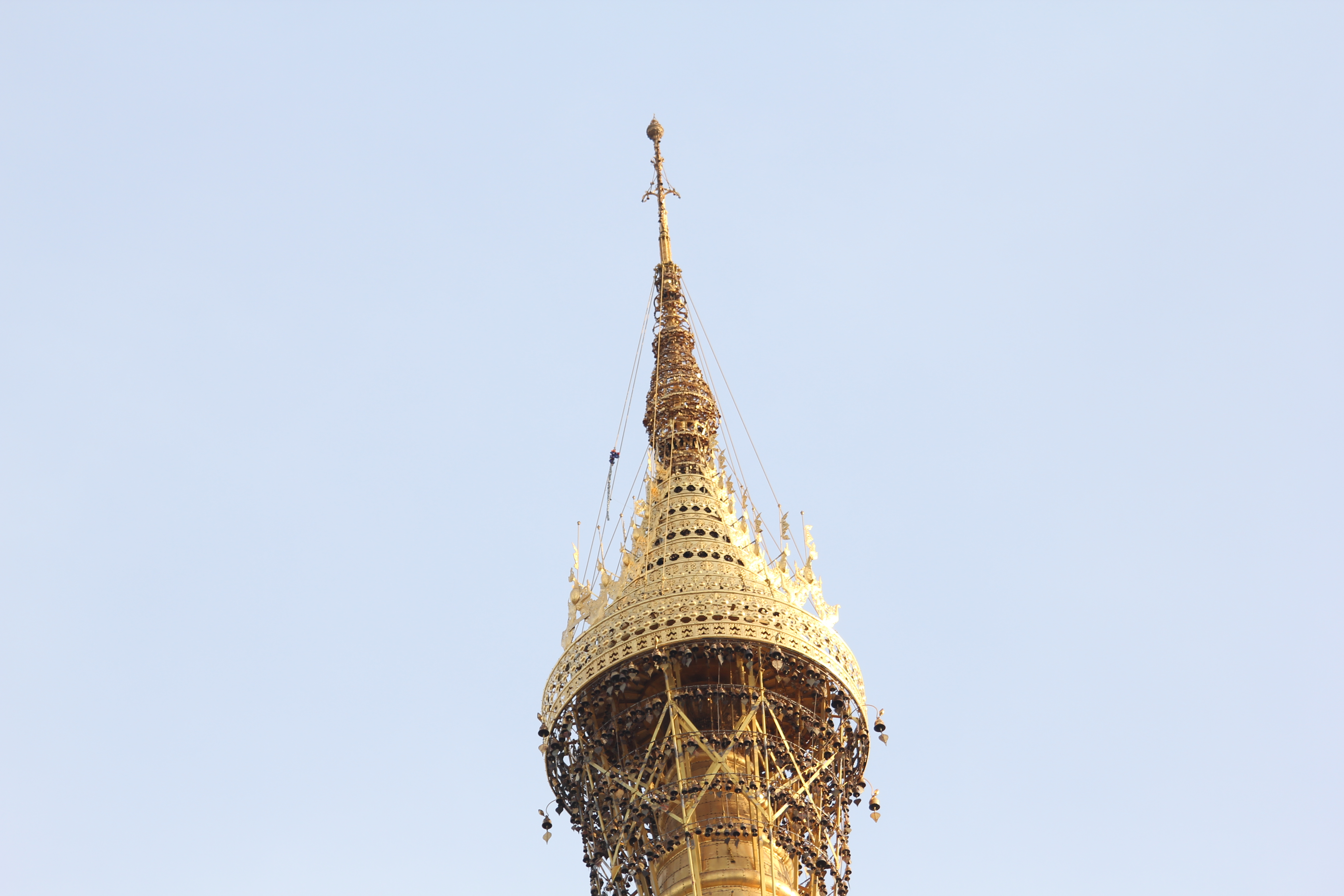 The umbrella of Shwedagon Pagoda.မြန်မာဘာသာ: ရွှေတိဂုံစေတီတော် ထီးတော်၊ စိန်ဖူးတော်